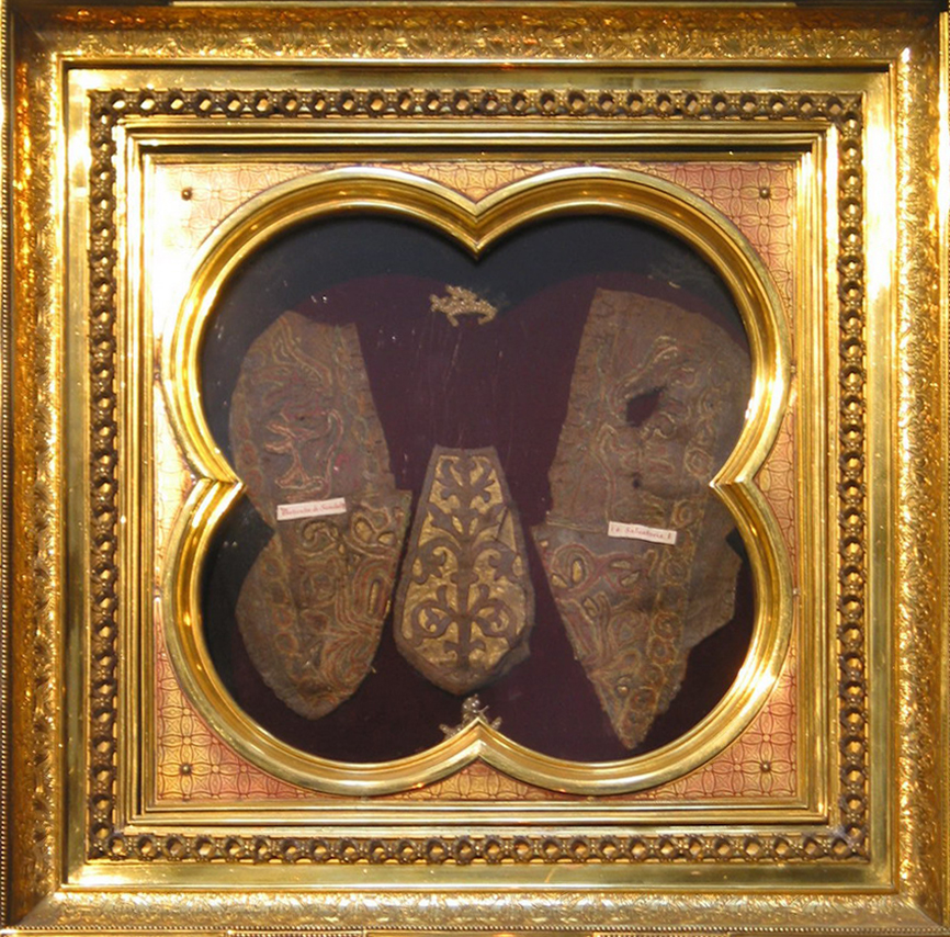 Sandals of Christ The Sandals of Christ rank among the most important relics of the Middle Ages. Author This picture was made available kindly by Manfred Nierstenhöfer - for Wikipedia* Licence GNU FDL and CC-by-SA